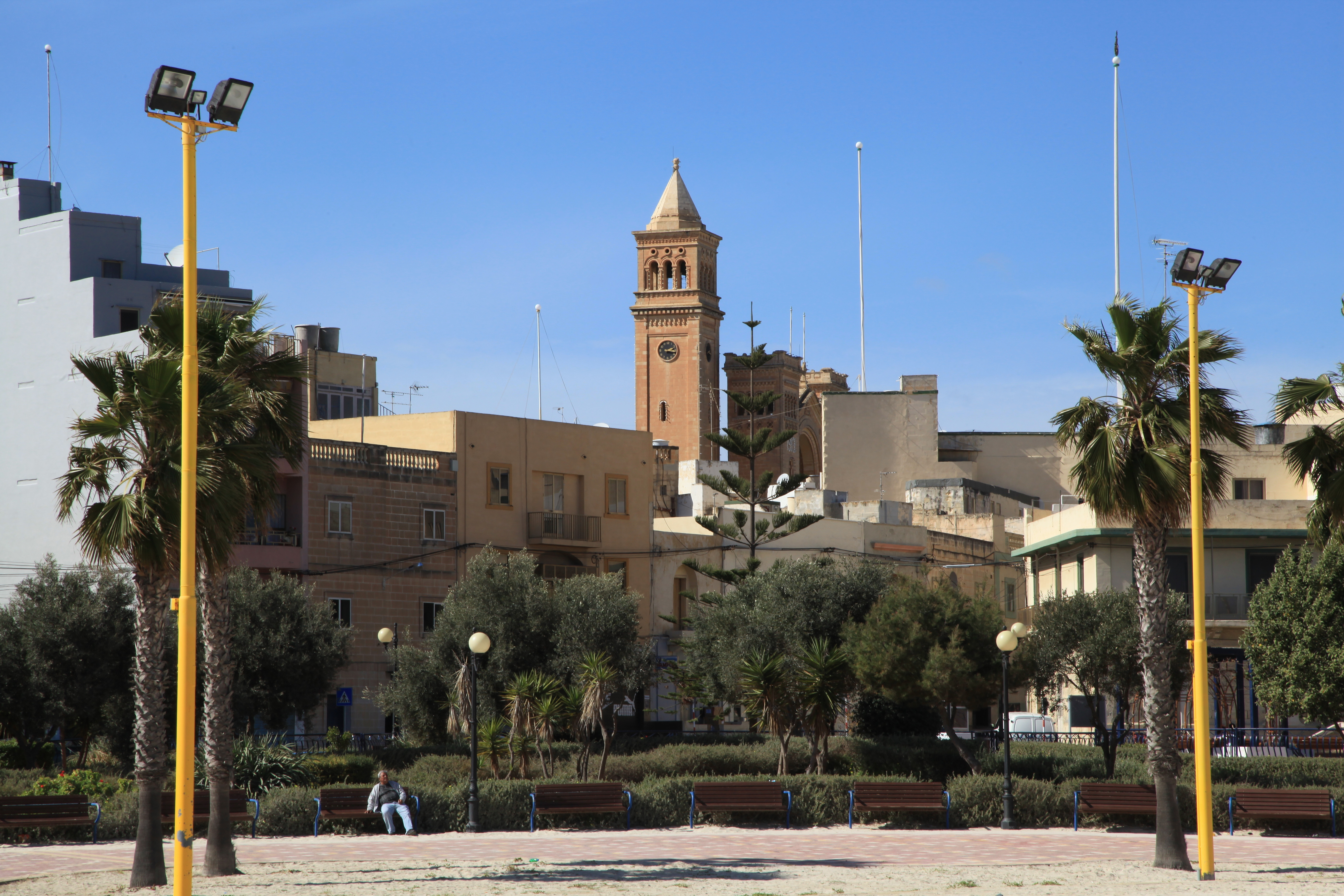 Pretty Bay, Triq il-Bajja s-Sabiħa with St. Peter in Chains in background in Birżebbuġa